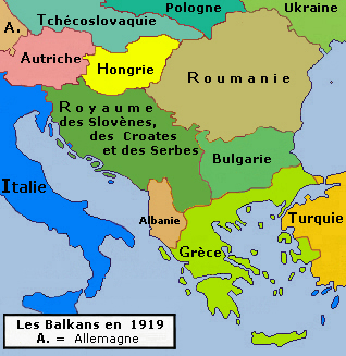 Historic map of Balkan peninsula, 1919